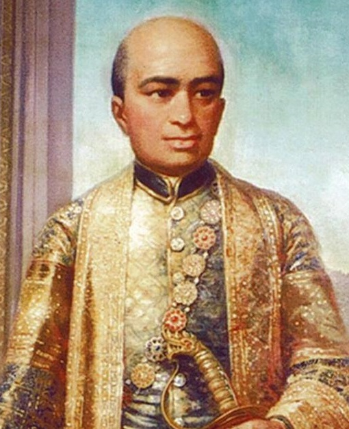 Crop of portrait of King Buddha Loetla Nabhalai which is displayed in the Chakri Mahaprasad Hall at the Grand Palace, Bangkok. Portrait created during the reign of King Chulalongkorn, meaning it was created no later than 1910 (identity of the creator is unknown to the uploader). Image taken from web page of the Public Relations Department, Region 3